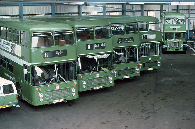 Ryde Bus Garage. Southern Vectis buses rest inside the garage. Vectis was the Roman name for the Isle of Wight. The nearest 4 buses are Bristol VRs with Eastern Coachworks bodies. The furthest is a Bristol FLF, otherwise known as a Lodekka, Bristol's way of indicating that it was designed to go under low bridges, (nothing to do with creating a low floor for easy access for disabled persons). All are in National Bus Company leaf green livery.